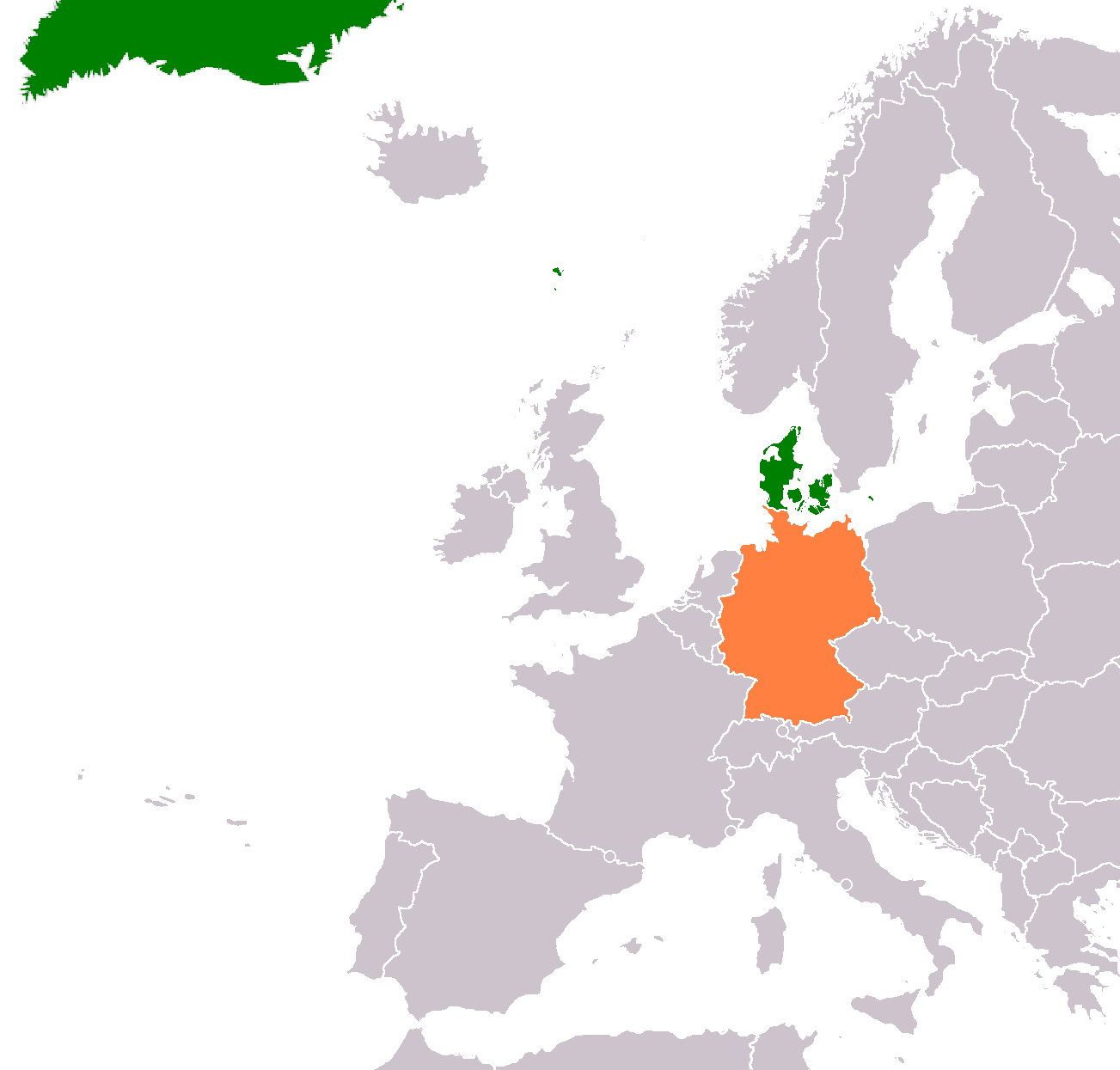 Map of Europe with the locations of Denmark (green) and Germany (orange).